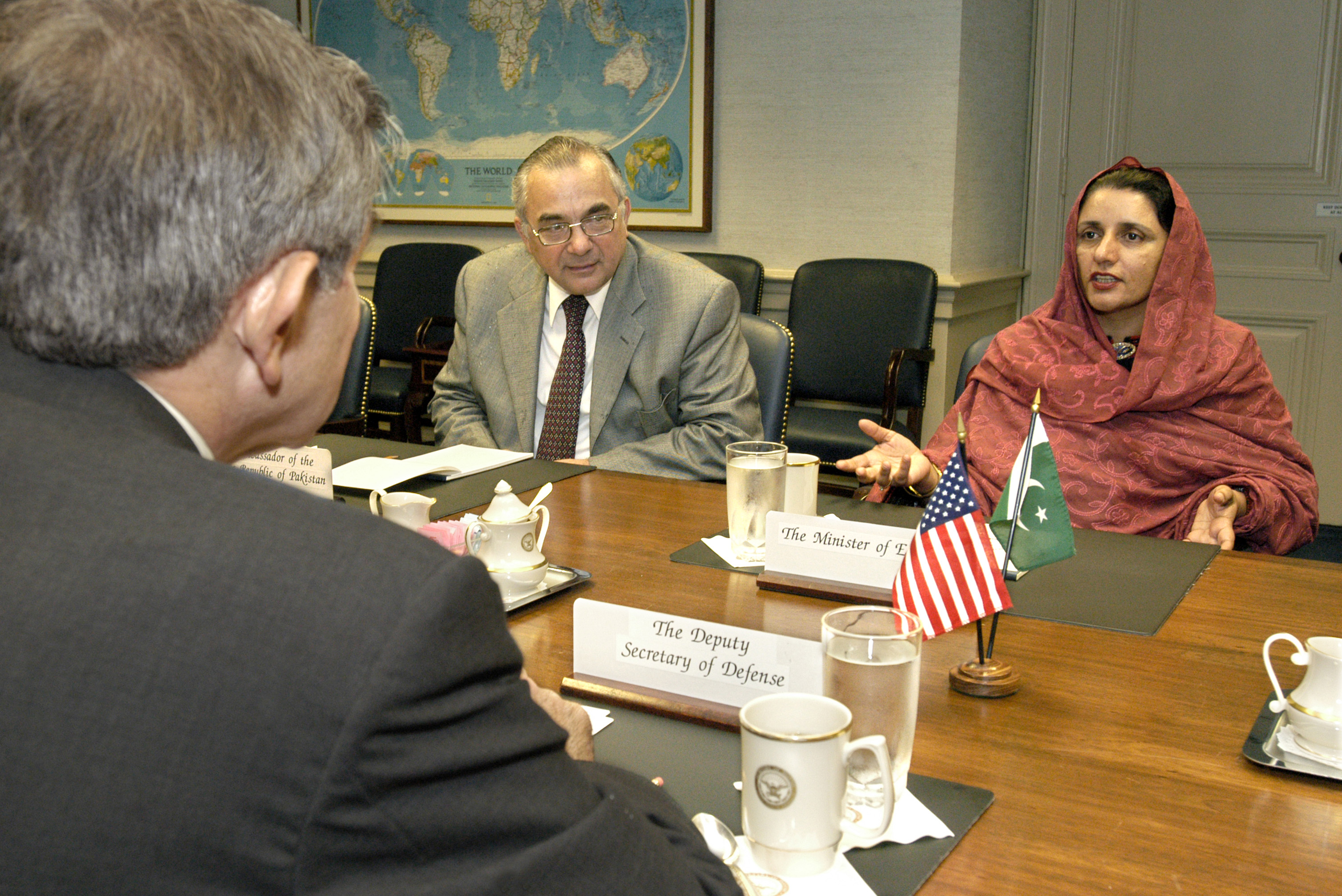 Pakistani Minister of Education Zubaida Jalal Khan (right) meets with Deputy Secretary of Defense Paul Wolfowitz (foreground) in the Pentagon on Nov. 6, 2003. Also participating in the talks is Pakistani Ambassador Ashraf Jehangir Qazi (center).